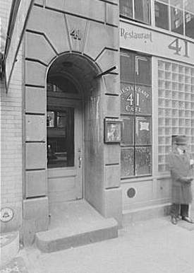 Arnold Genthe's studio at 41 E. 49th St., New York City. 1 negative : safety ; 5 x 7 in. or smaller.